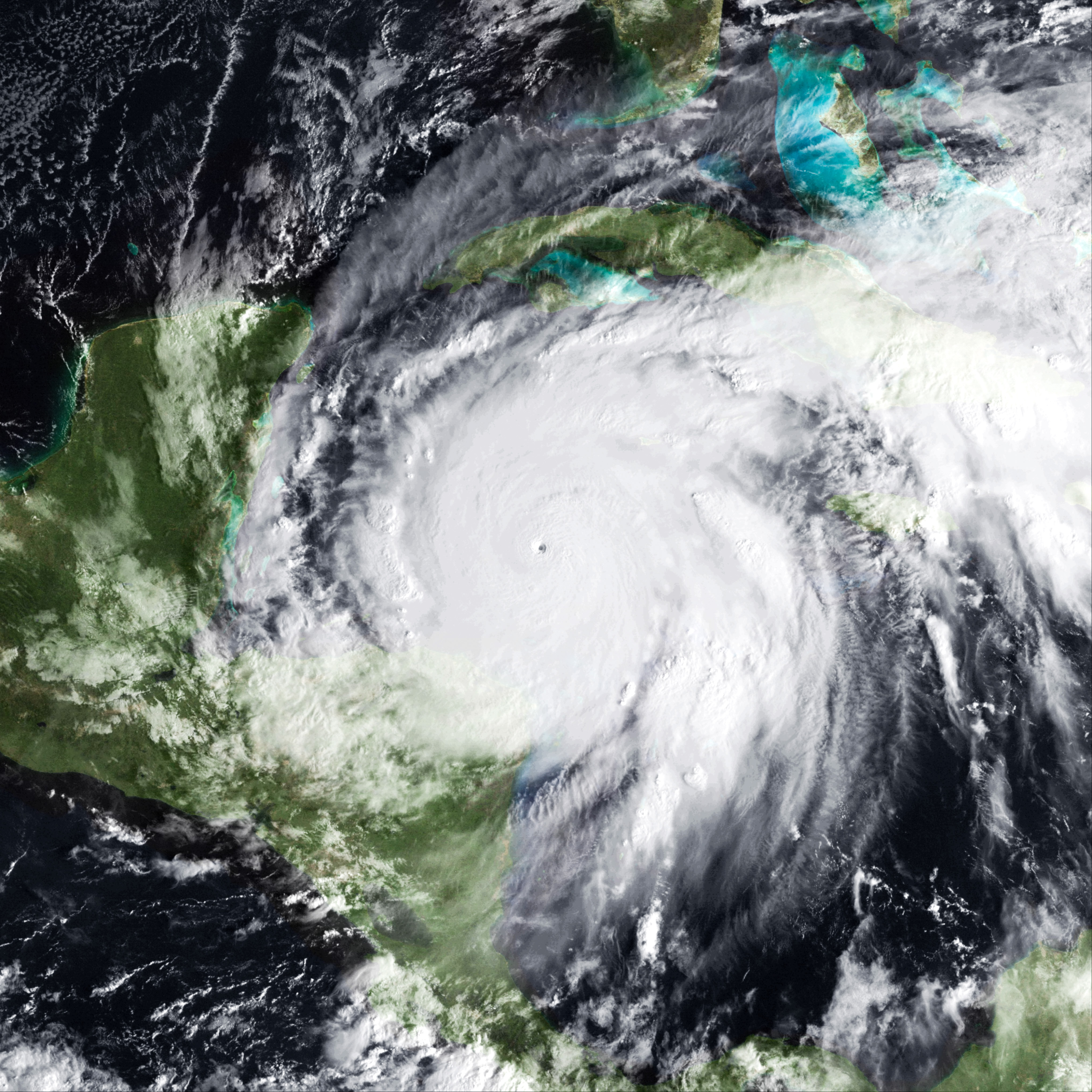 Hurricane Wilma at peak intensity on October 19